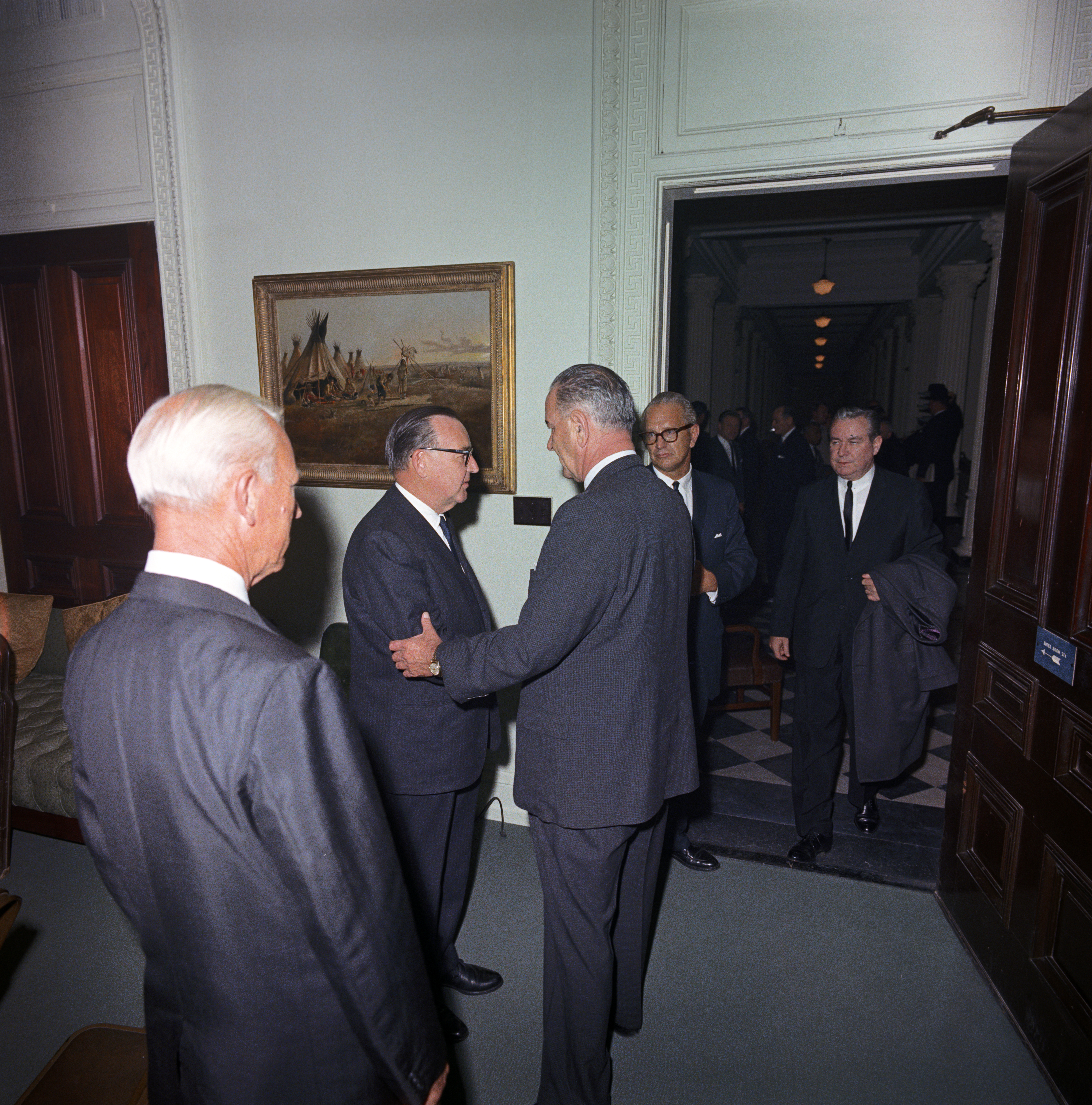 President Lyndon B. Johnson meets with Governors; here with California Governor Pat Brown